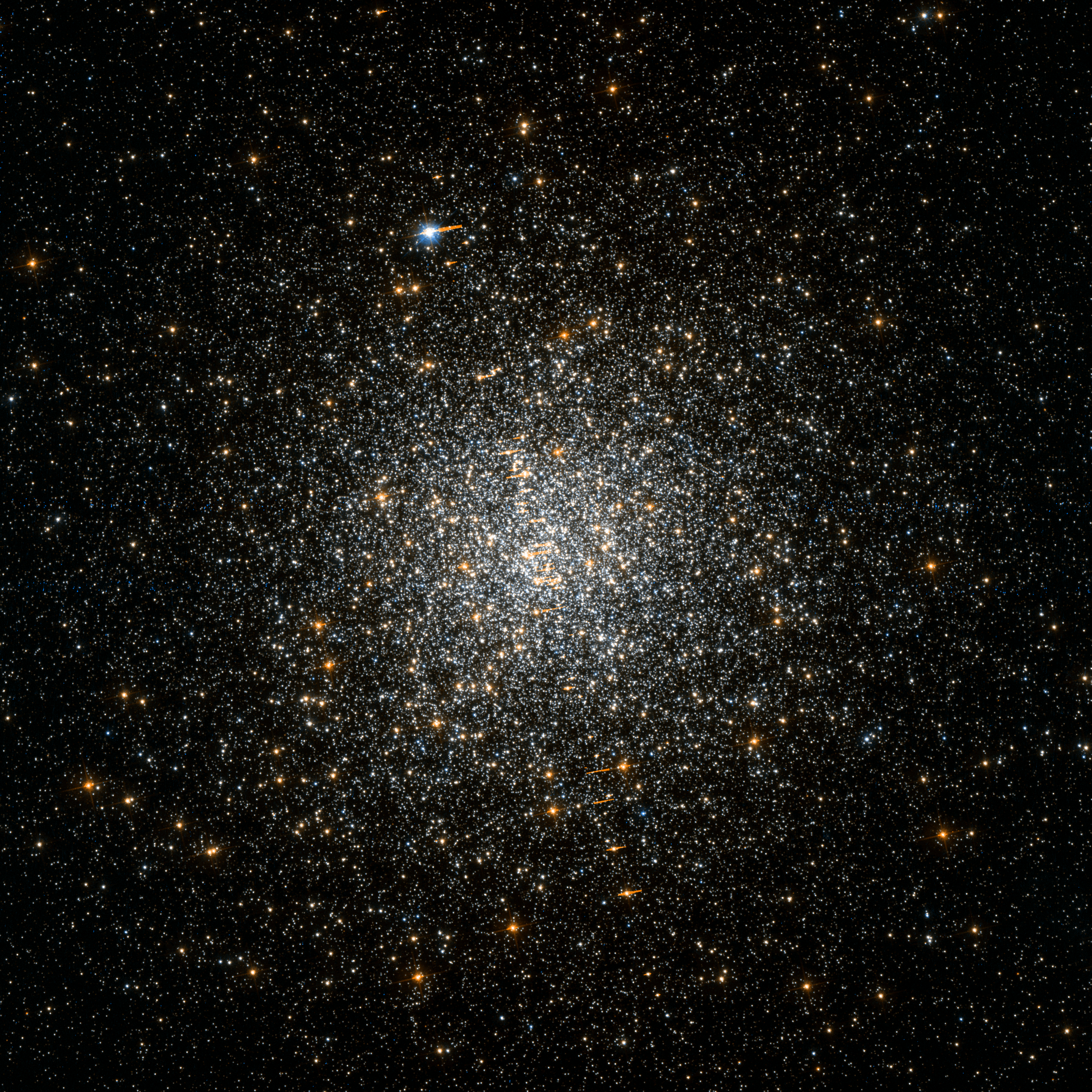 Color rendering is done by by Aladin-software (2000A&AS..143...33B.)